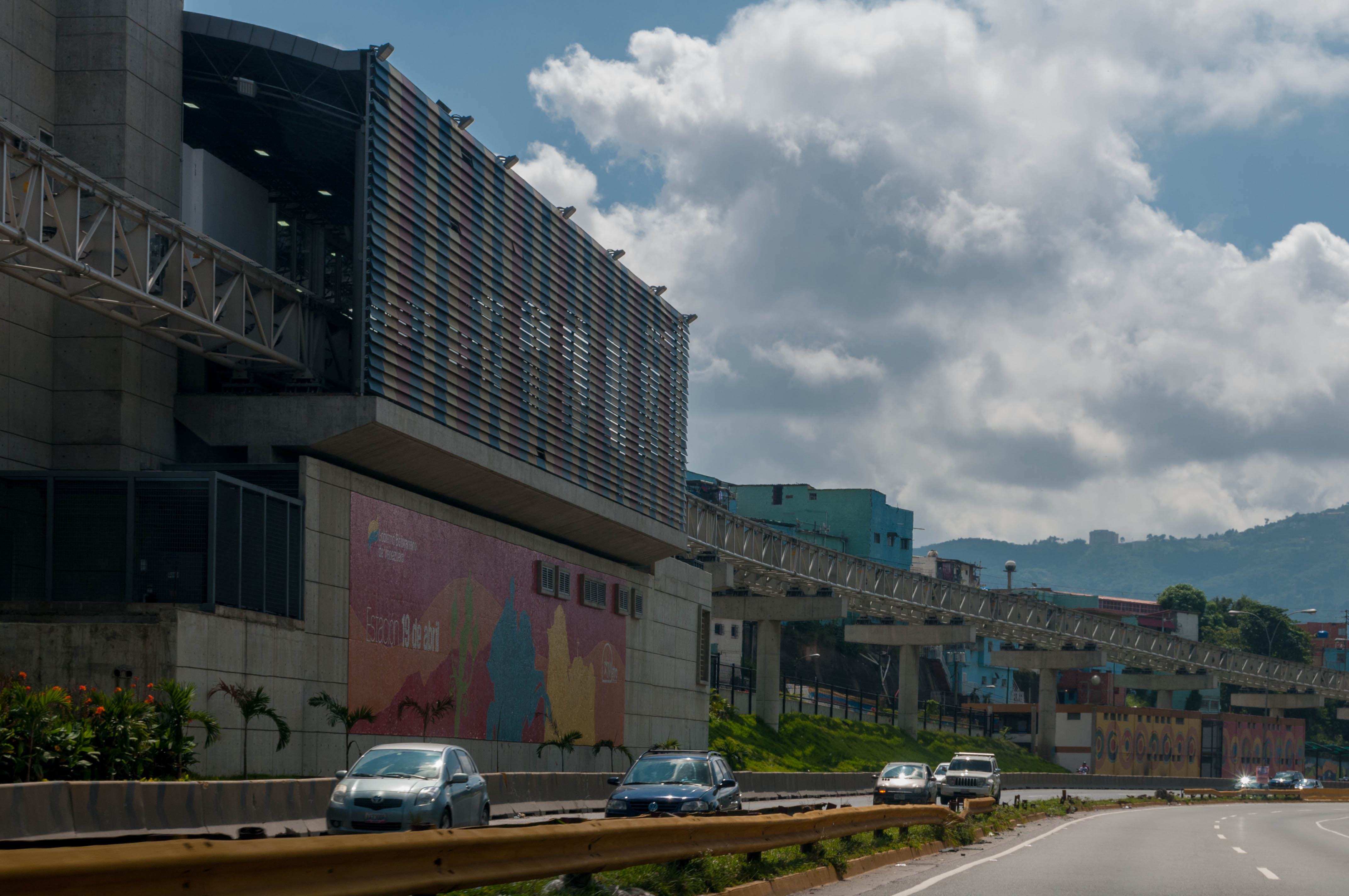 Gare Independencia in Petare, Caracas. Venezuela